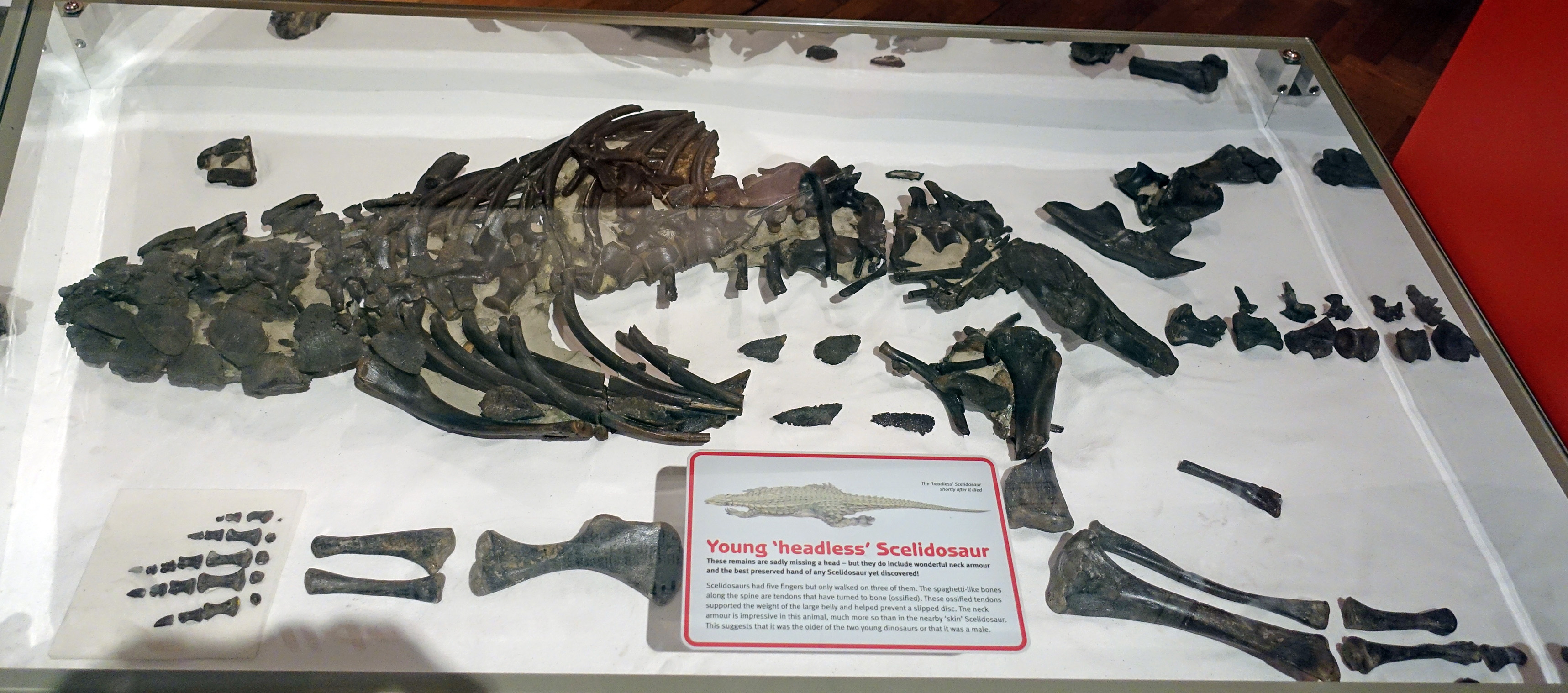 Scelidosaurus remains in Bristol City Museum and Art Gallery.